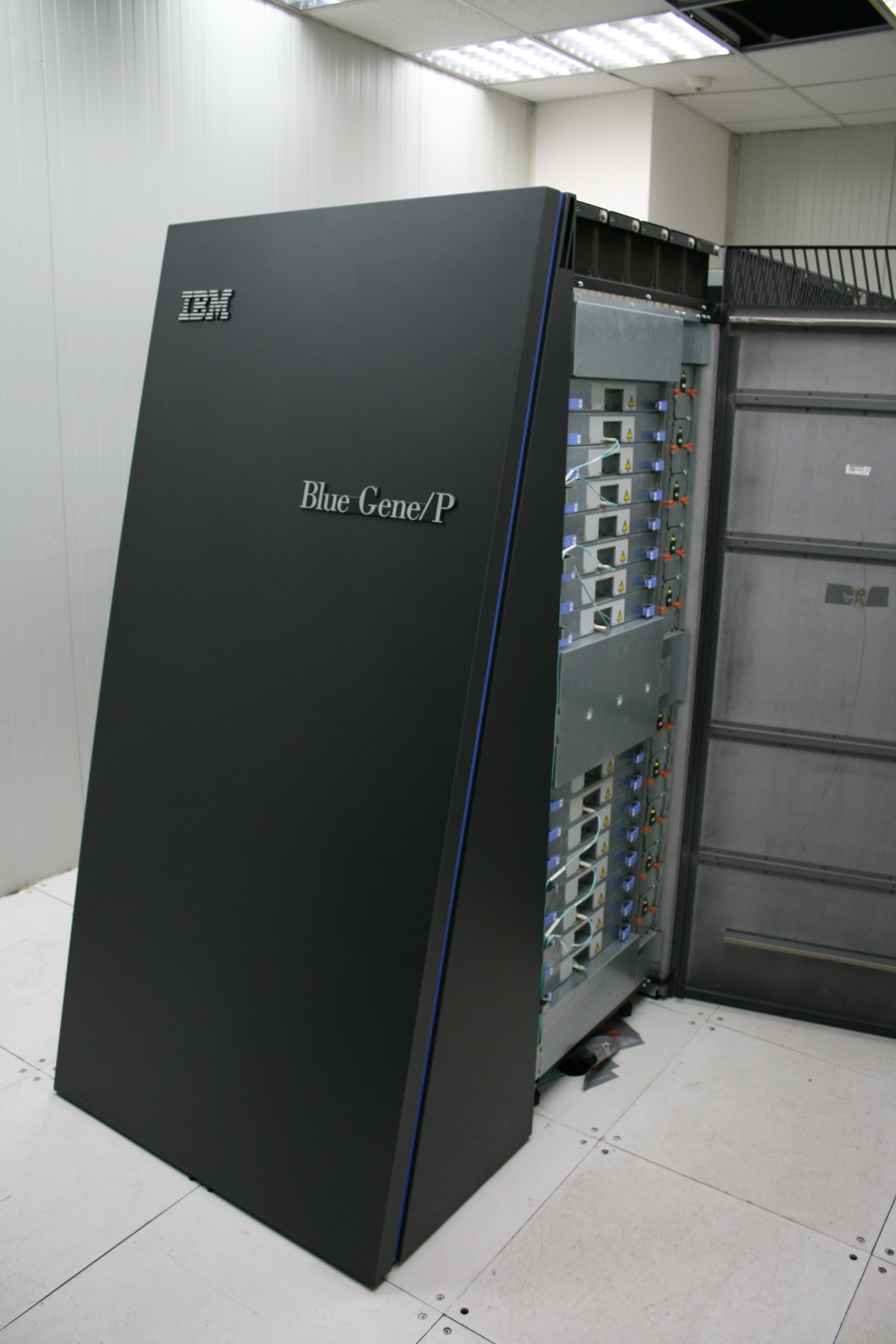 IBM Blue Gene/P in the National Center for Supercomputing Applications in Sofia, Bulgaria